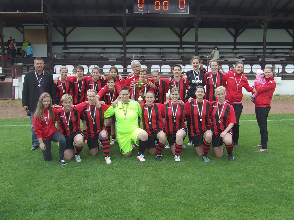 The champion group with the gold medals